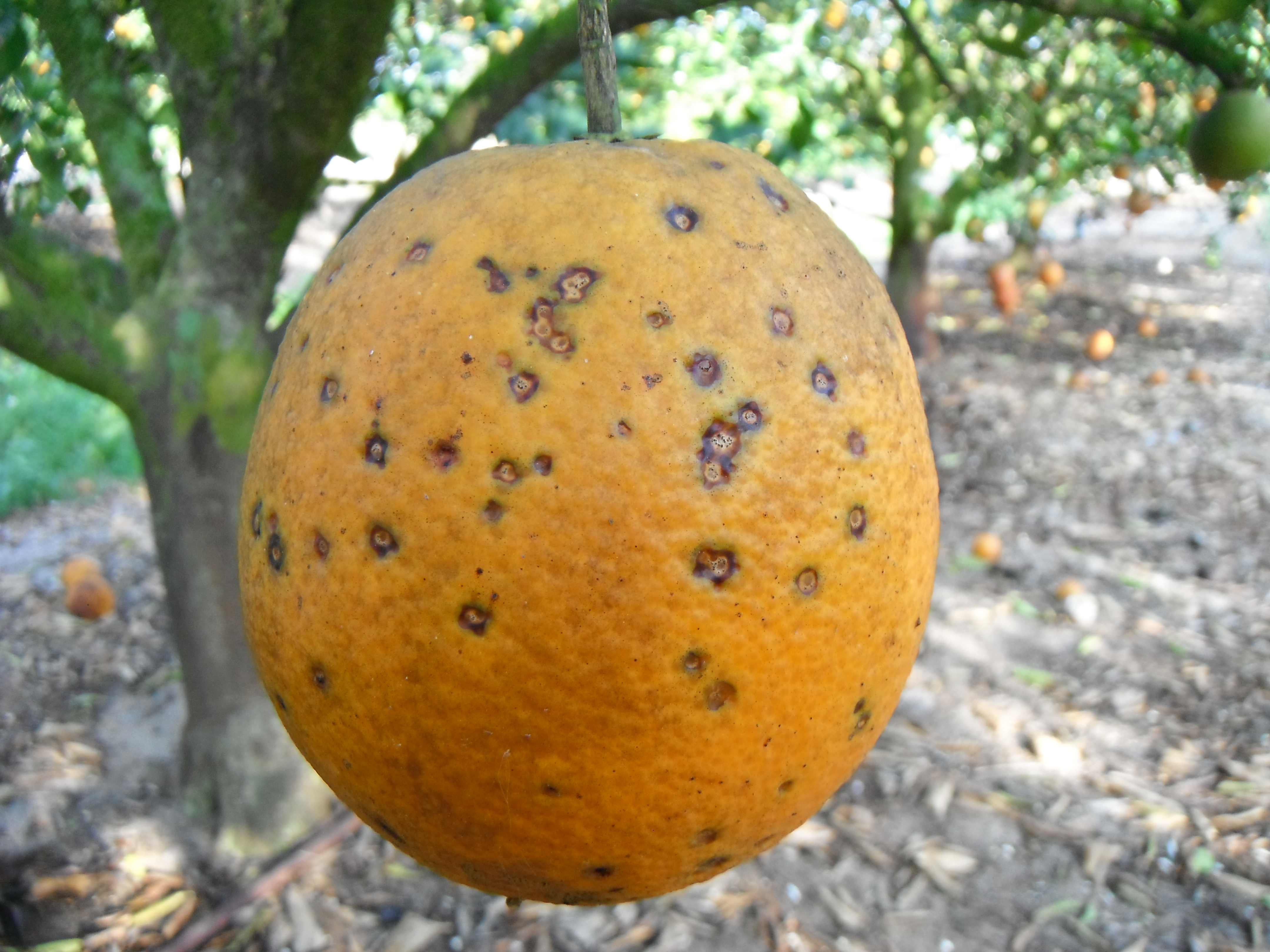 The fungus Guignardia citricarpa, commonly known as "black spot ", infesting an orange. Photographed in Immokalee, Florida, USA.